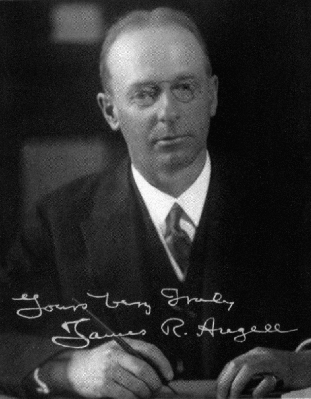 American psychologist, educator and onetime president of Yale University